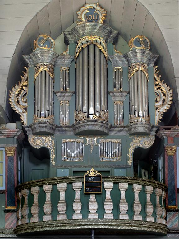 Neuendorf (Schleswig-Holstein, Germany) church, organ, photo 2010